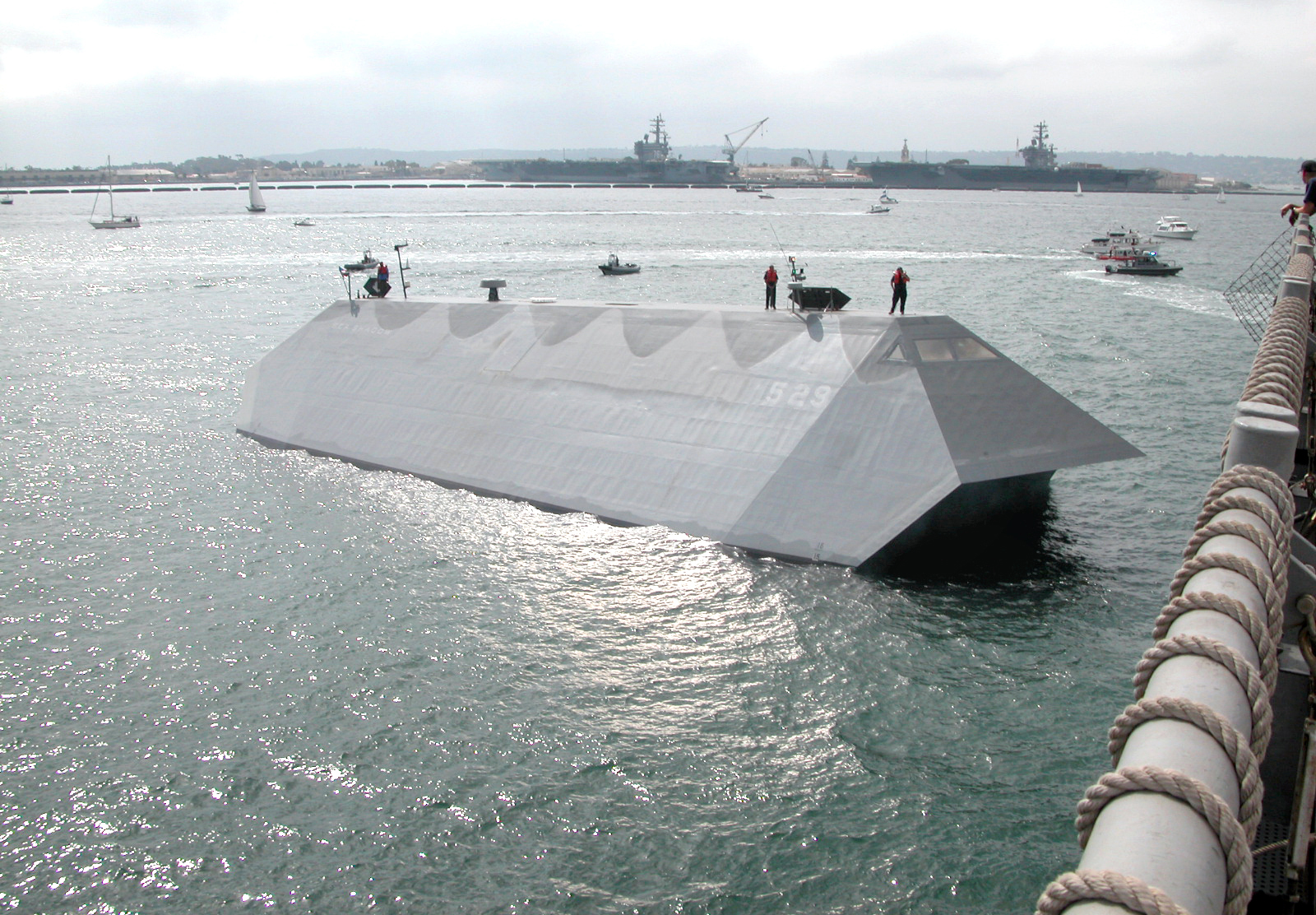 San Diego, Calif. (Oct. 2, 2004) - The Navy test craft, Sea Shadow, prepares to moor alongside the Embarcadero waterfront park in San Diego, Calif., for public tours of the experimental twin-hulled vessel. Sea Shadow is a stealth variety of Naval ship designed to test new technologies for surface ships including ship control, structures, automation for reduced manning, sea keeping and signature control. The ship's visit coincided with the Fleet Week 2004 celebration in San Diego. Fleet Week San Diego is a three-week tribute to military members and their families who make San Diego and Southern Calif., the largest concentration of Navy and Marine forces in the world.